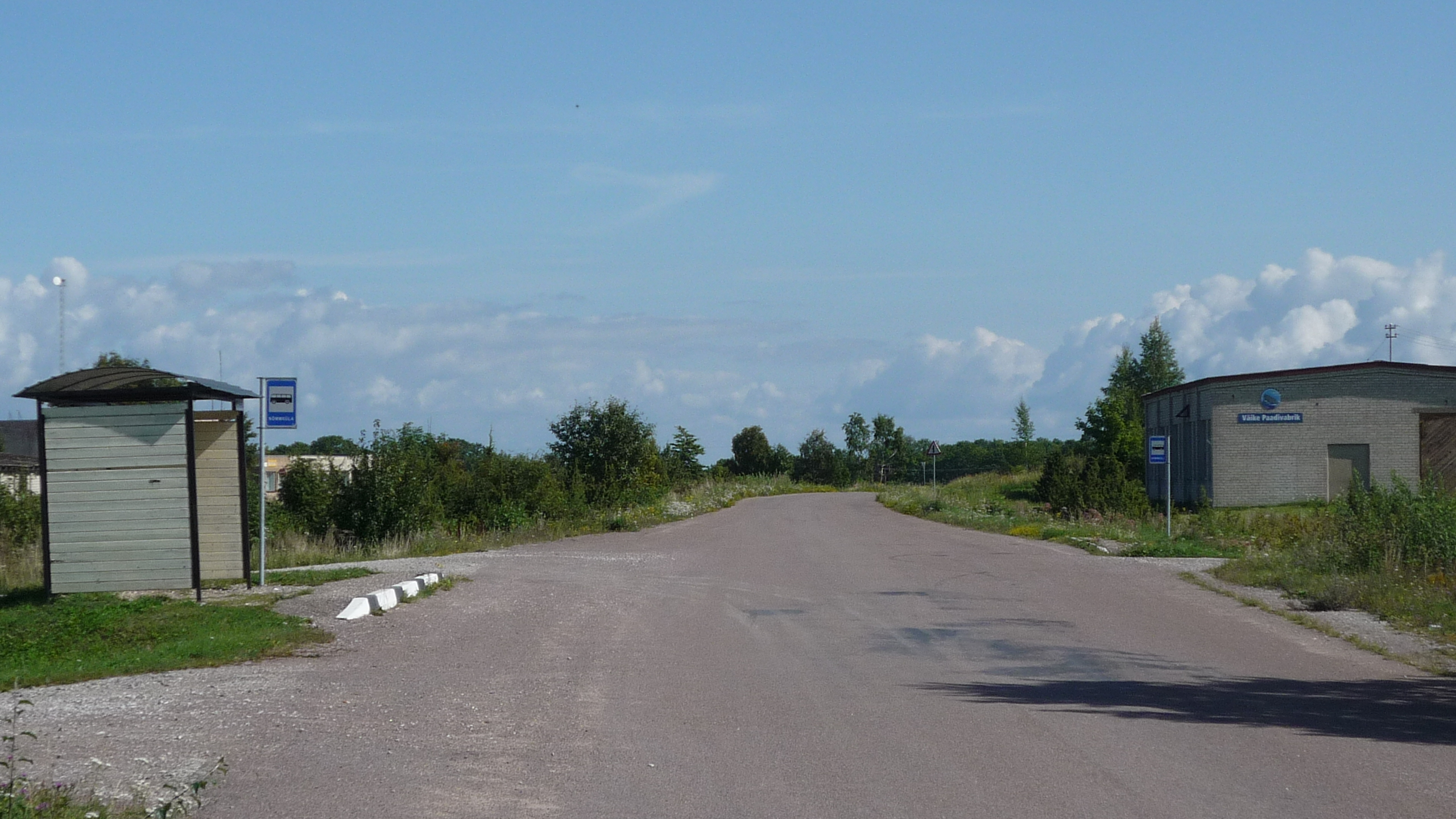 Bus stop in Nõmmküla village. View from SW. Muhu island, Estonia.